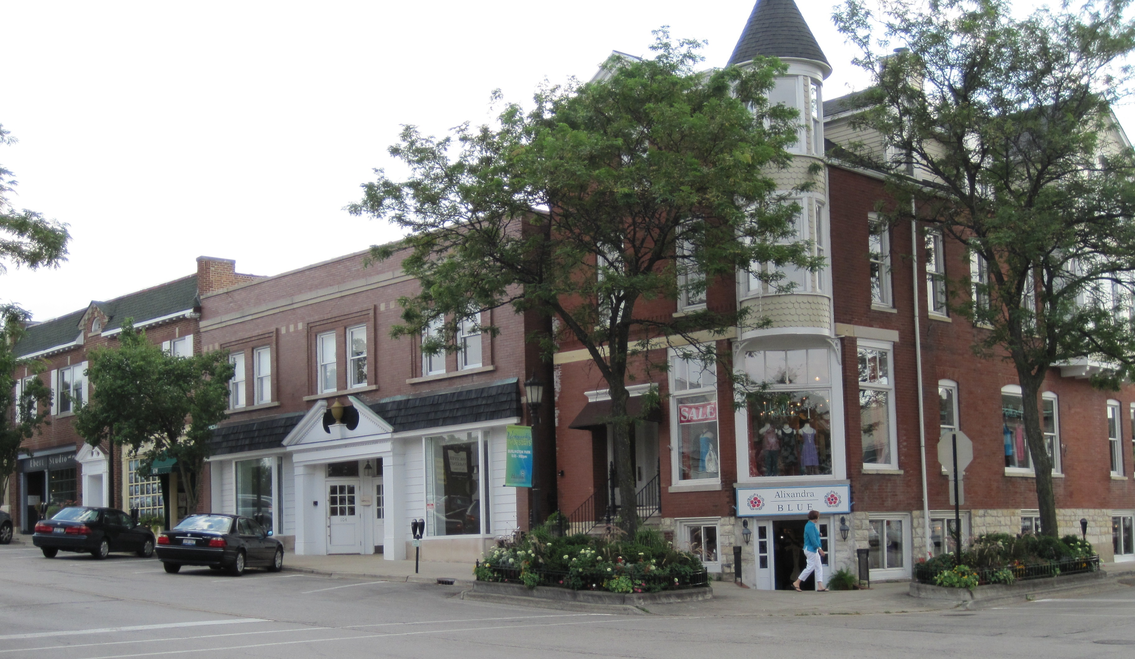 Taken July 27, 2010 by User:Teemu08